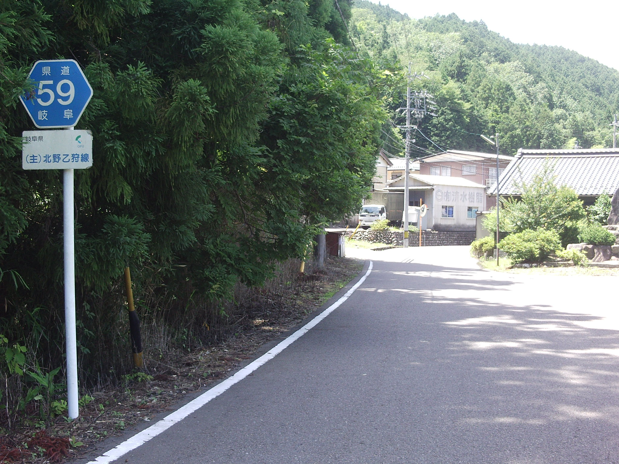 Gifu prefectural road No.59 in Otogari, Mino, Gifu.